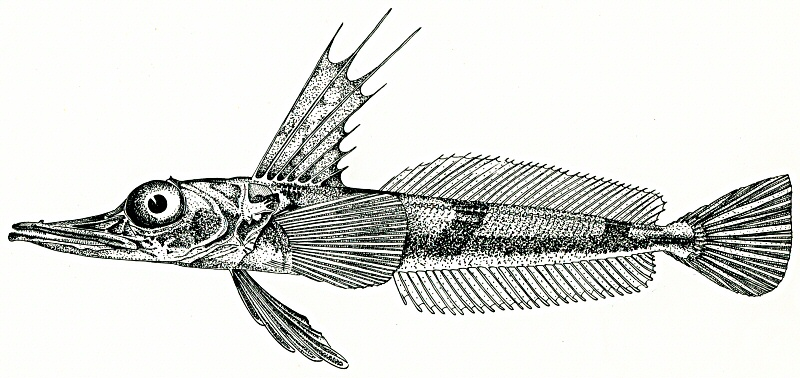 Pygmy icefish Channichthys irinae Shandikov, 1995, holotype (NMNH 5103), ripe male, 240 mm TL, 209 mm SL, Kerguelen Is., Antarctica